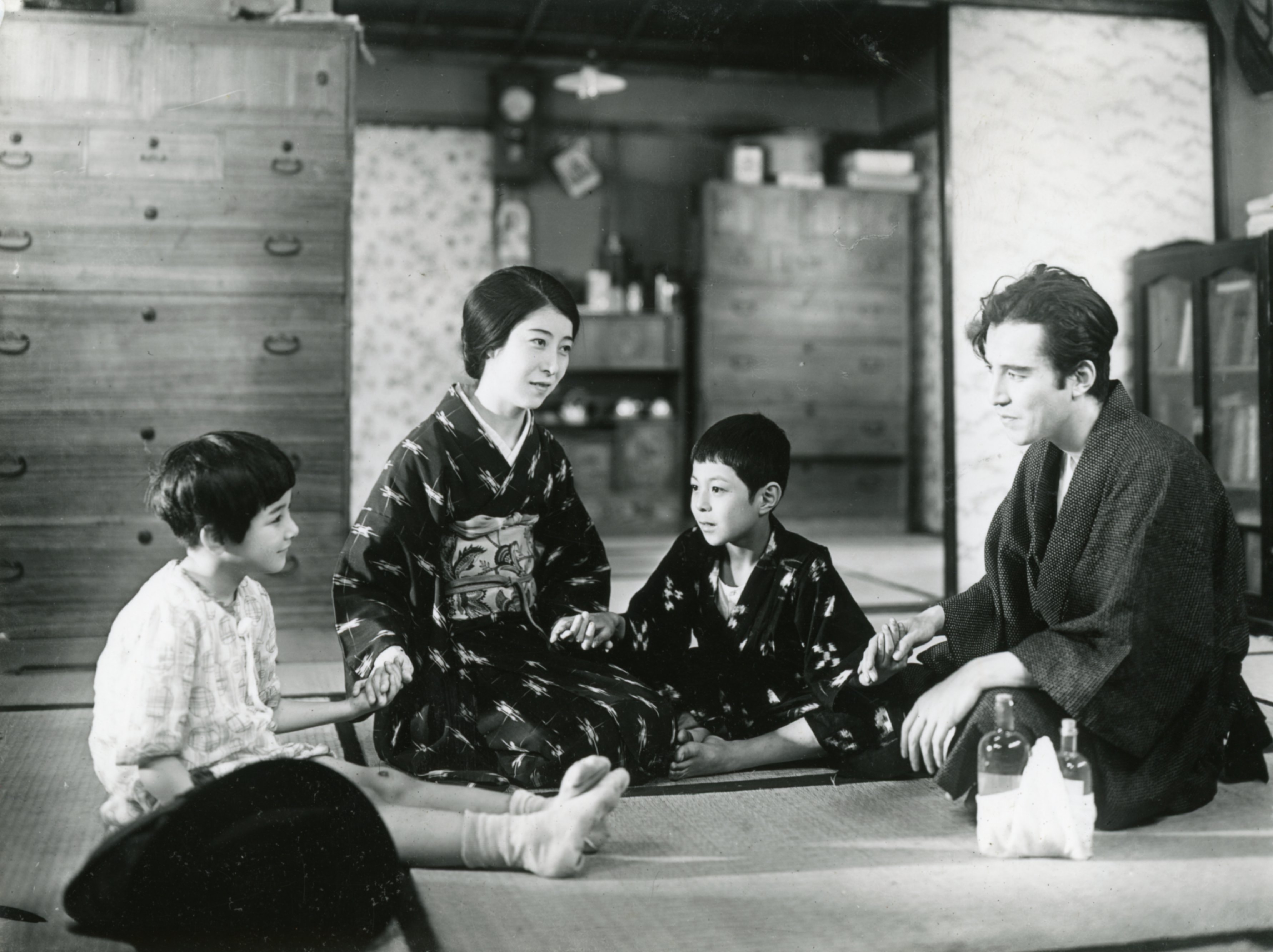 from left to right : Hideko Takamine, Emiko Yagumo, Hideo Sugaware and Tokihiko Okada in Tōkyō no kōrasu (東京の合唱) directed by Yasujirō Ozu